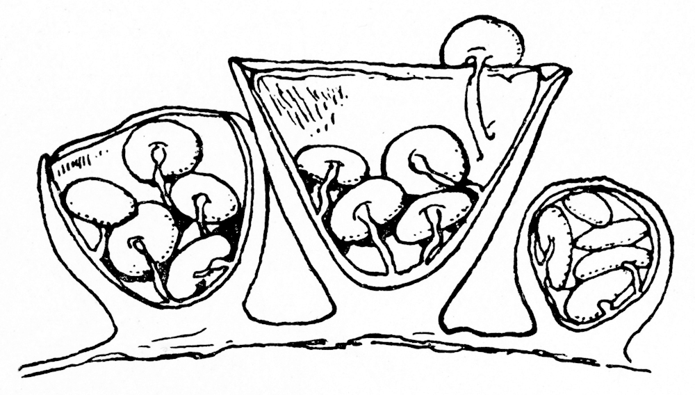 Original caption reads: " Crucibulum vulgare Tul.; young and mature sporophores in longitudinal section, X 3; after W. G. Smith." Note that C. vulgare is now known as Crucibulum laeve